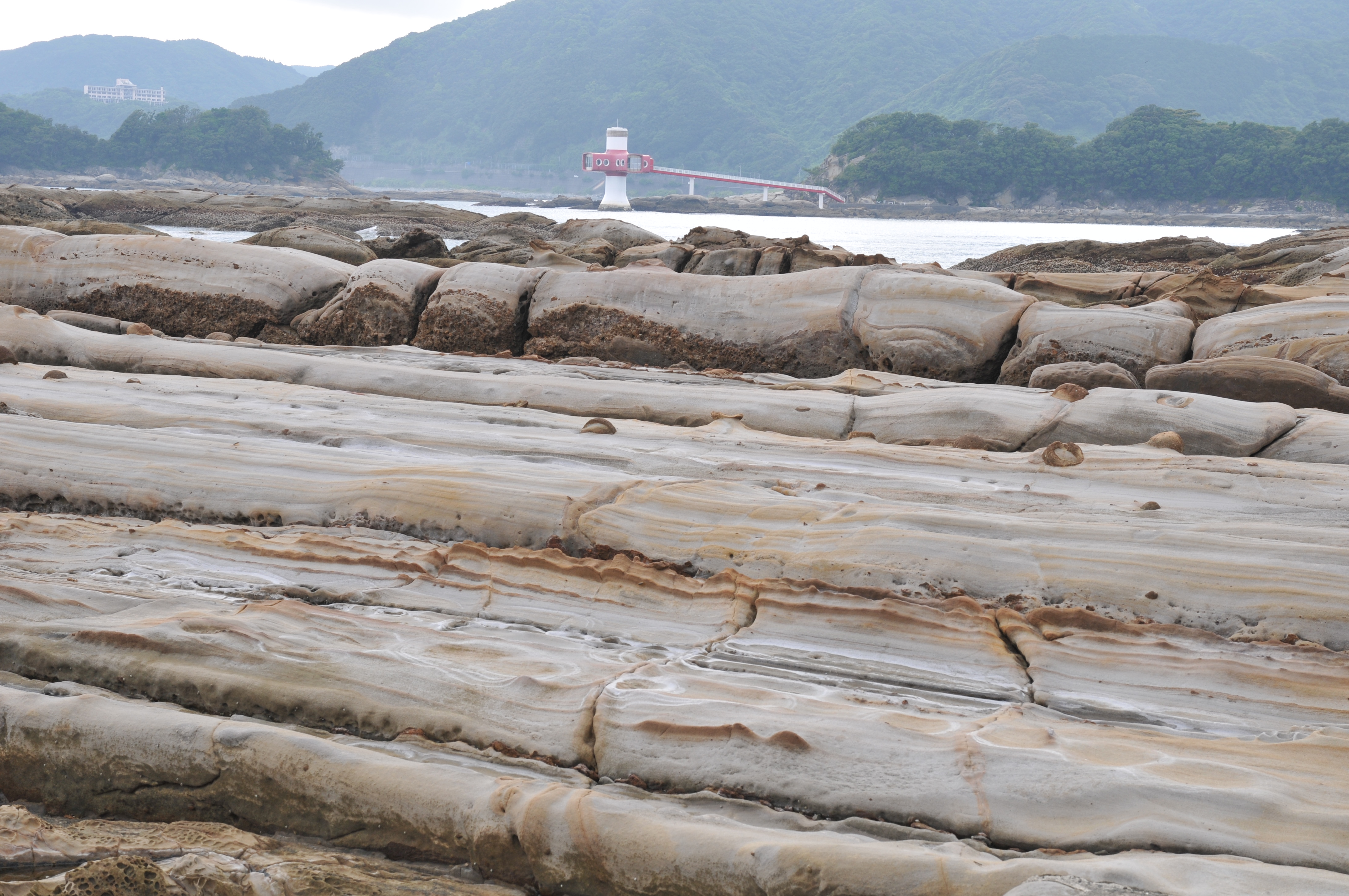 Tatsukushi and Marine Park